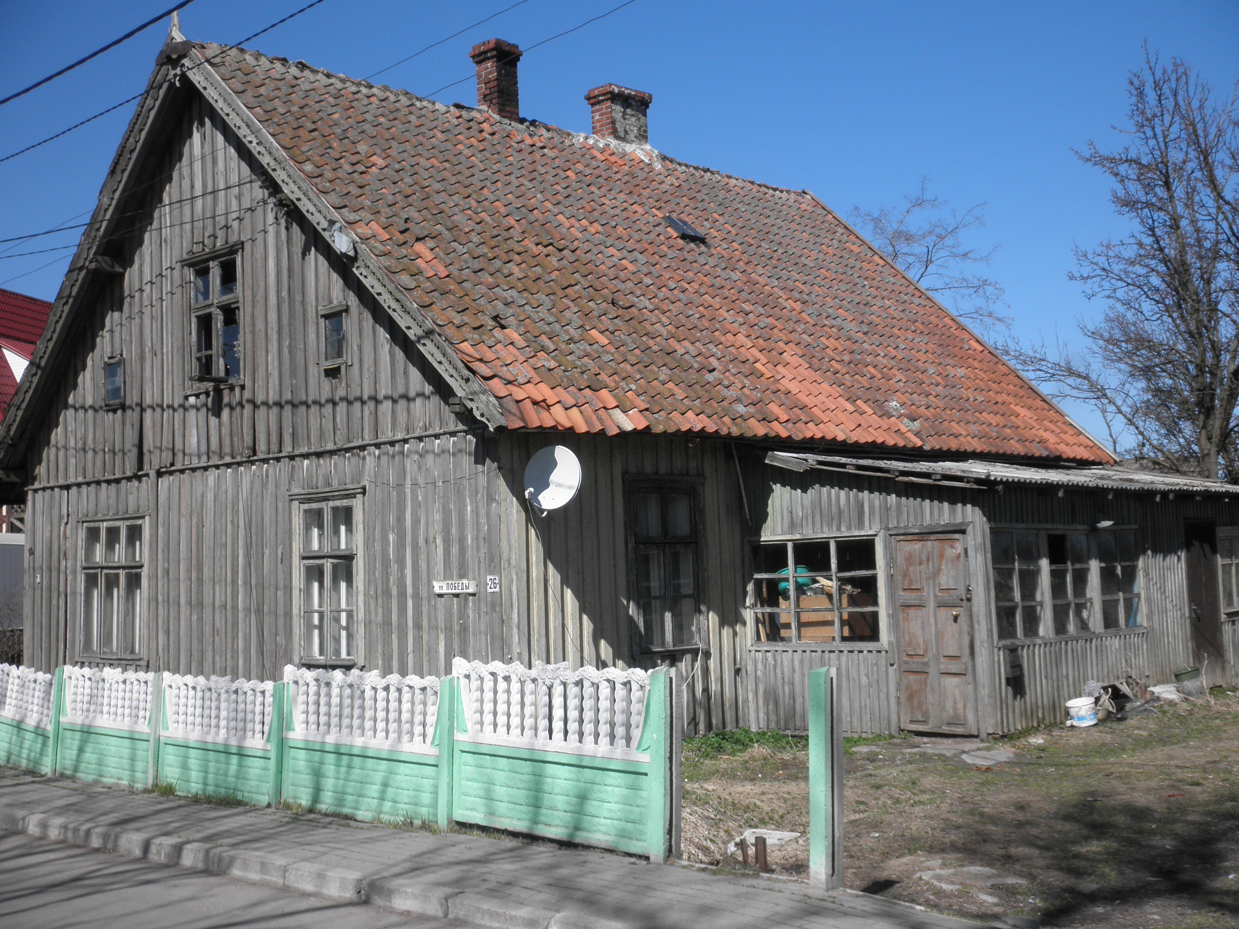 Old House in Rossitten (Rybachy) in Kaliningrad Oblast in Russia